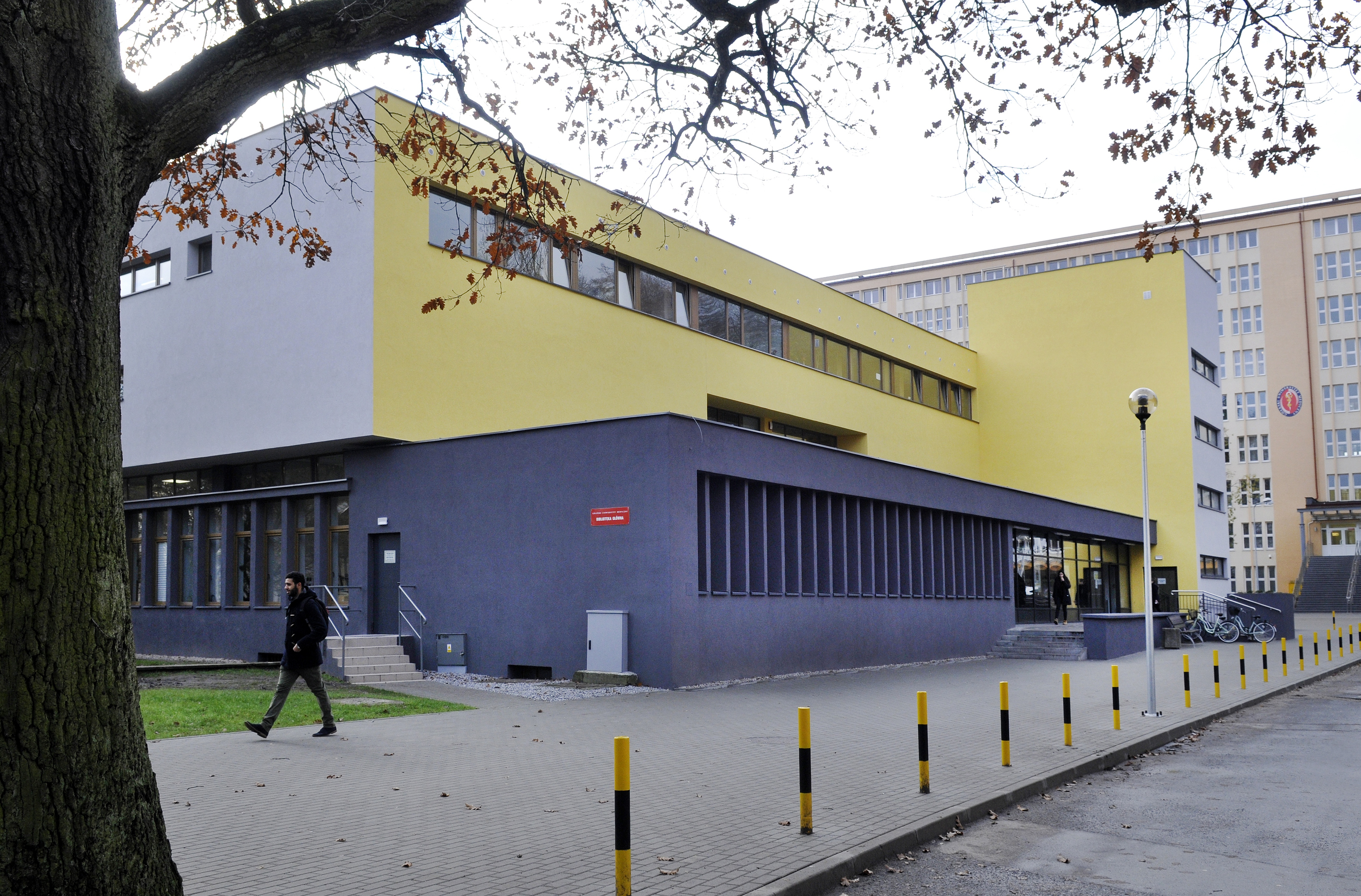 Medical University of Gdańsk Main Library ul. Dębinki 1, 80-211 Gdańsk